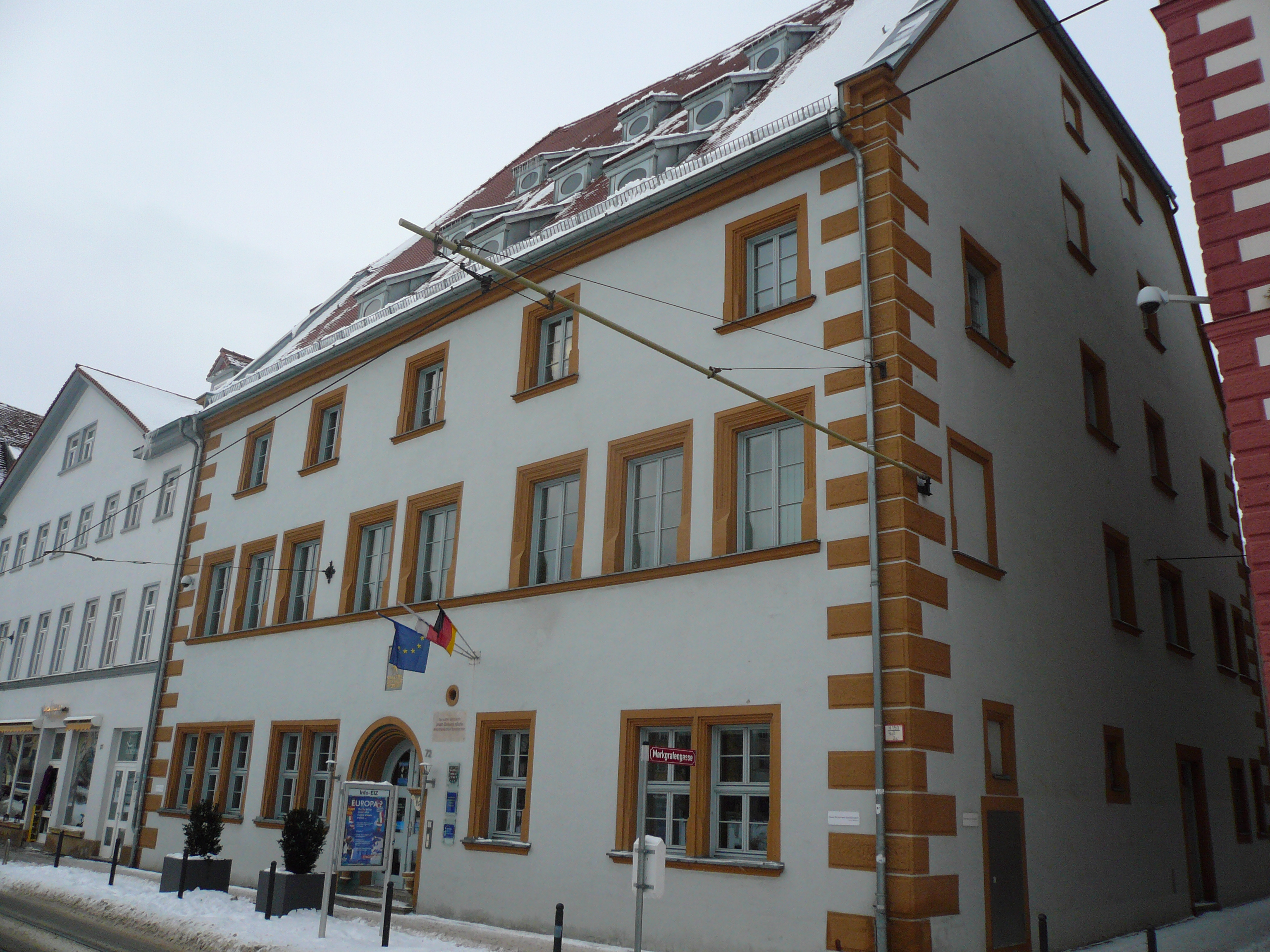 The house Zum Güldenen Sternen in Erfurt, Germany